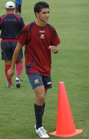 Honduran soccer player